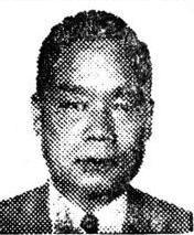 Kim Jun-yeon, Korean Indifendunce Activist and Politicians